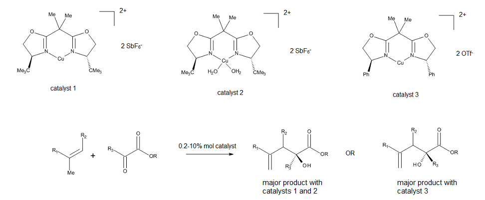 fig 15